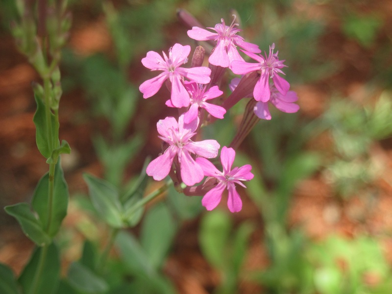 Sweet-William Catchfly (Silene armeria) growing in a Mason, New Hampshire garden.